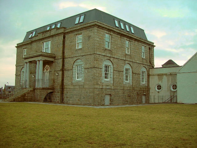 Symbister House, Whalsay. Symbister House, now the Secondary Department of Whalsay School